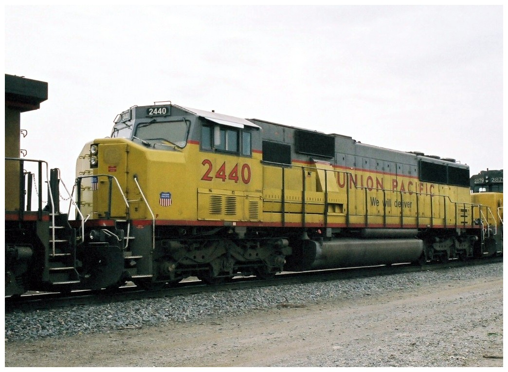 Union Pacific Railroad #2440, EMD SD60M [1]